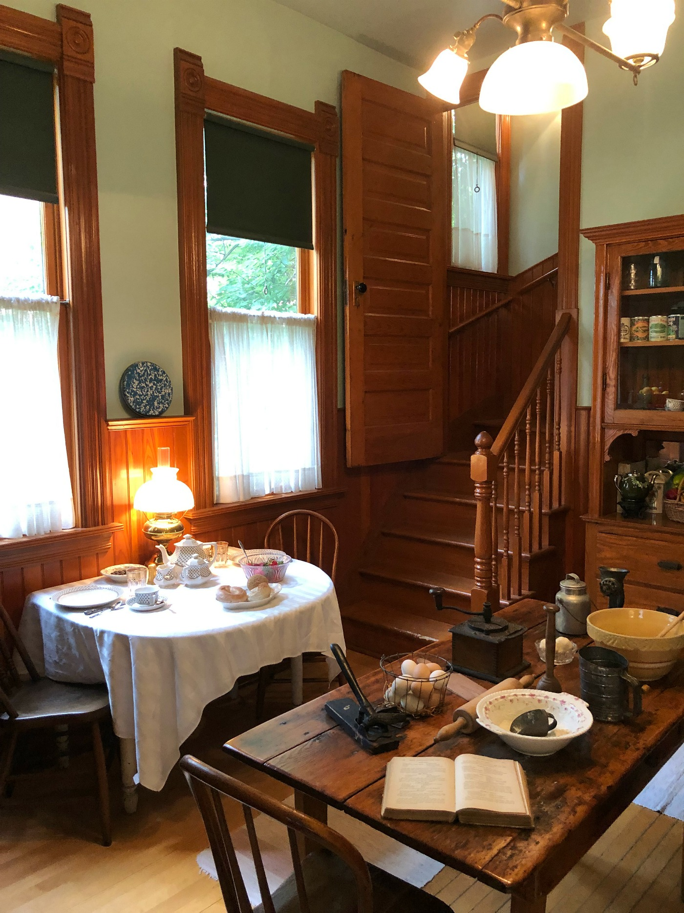 Hemingway kitchen, Ernest Hemingway Birthplace Museum. Oak Park, Illinois. Ernest Hemingway was born in this home and lived in it with his family for the first six years of his life.